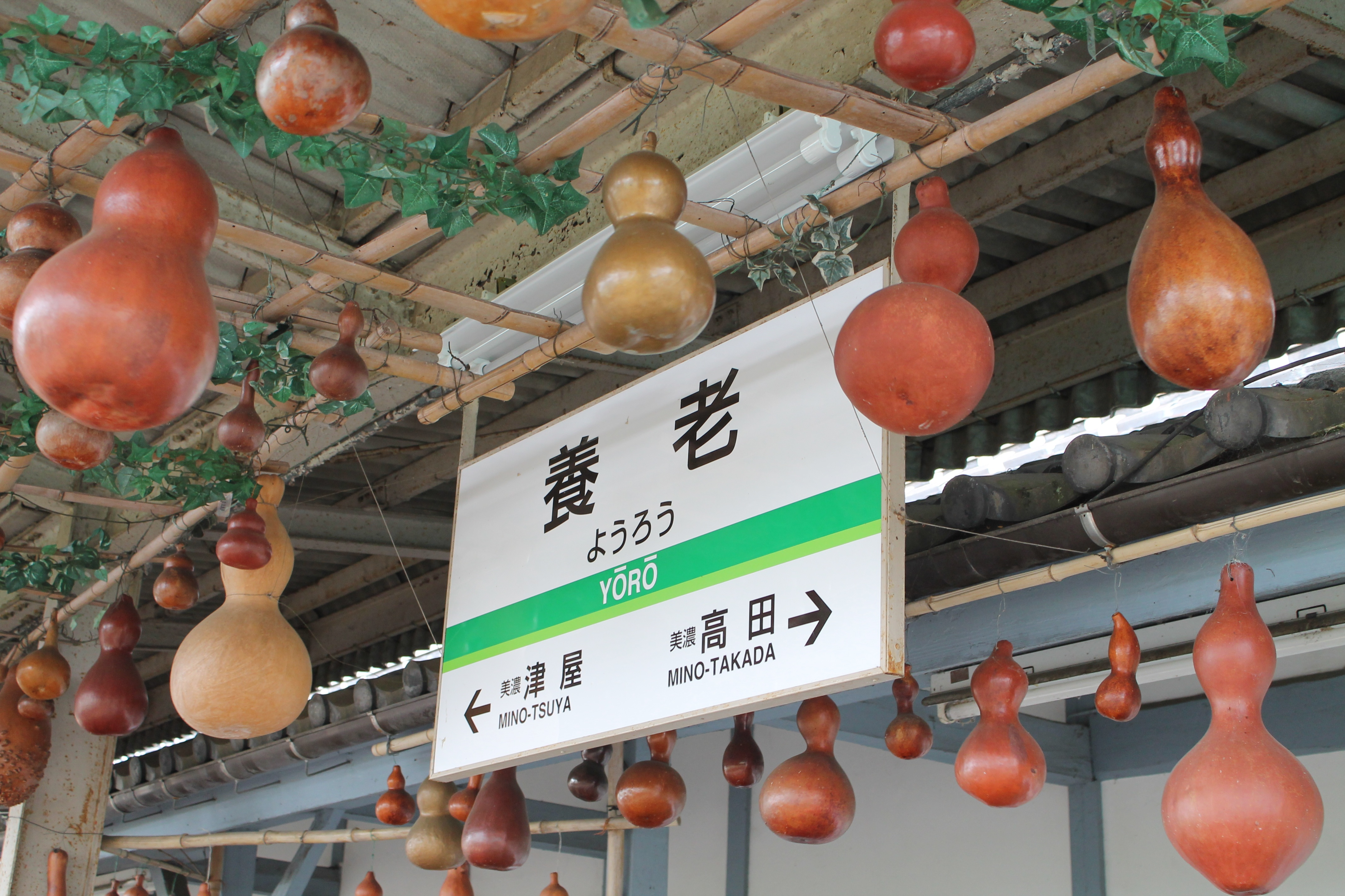 Yoro Station